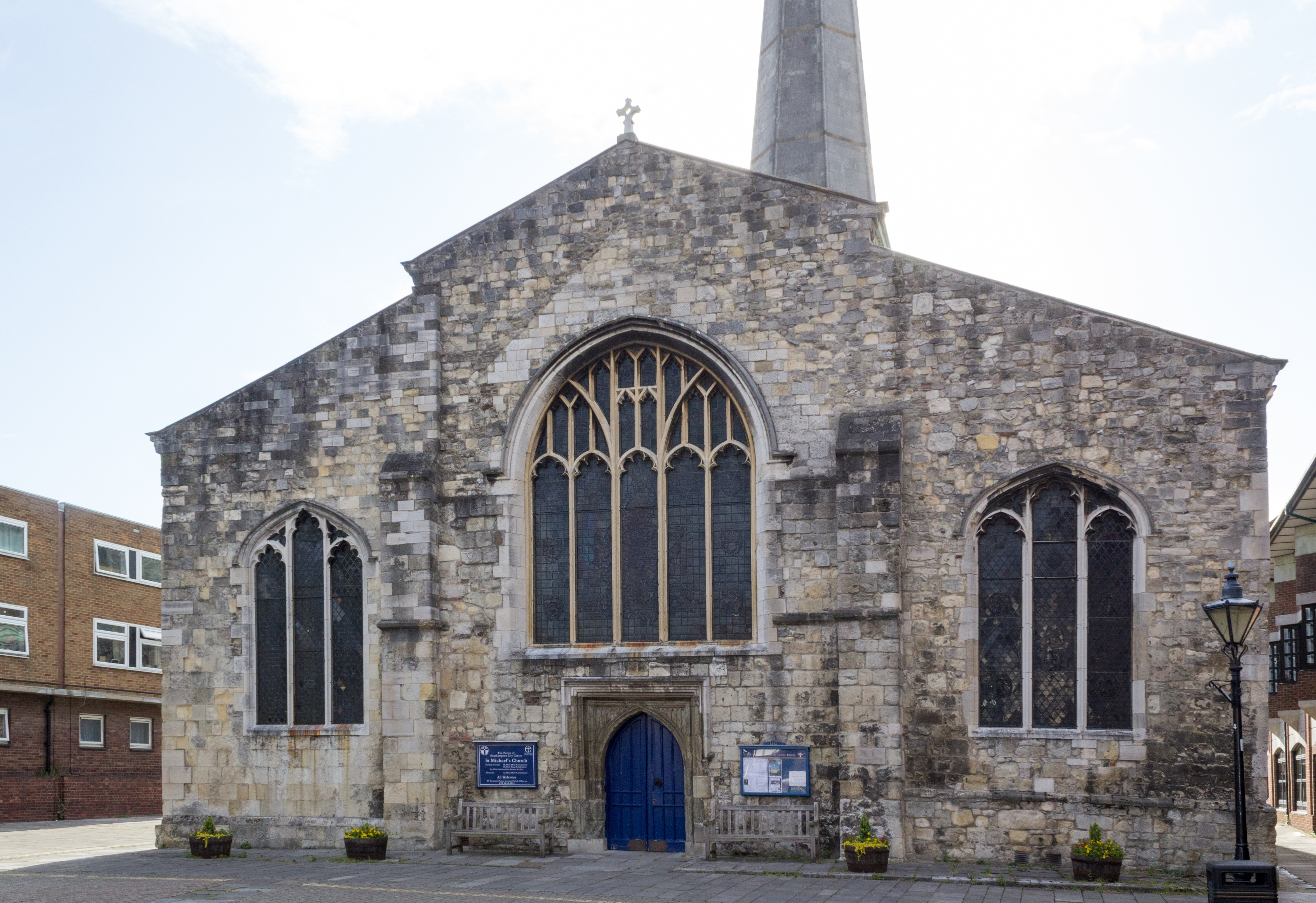 Church of St Micheal, Southampton Wikidata has entry Q7590665 with data related to this building.